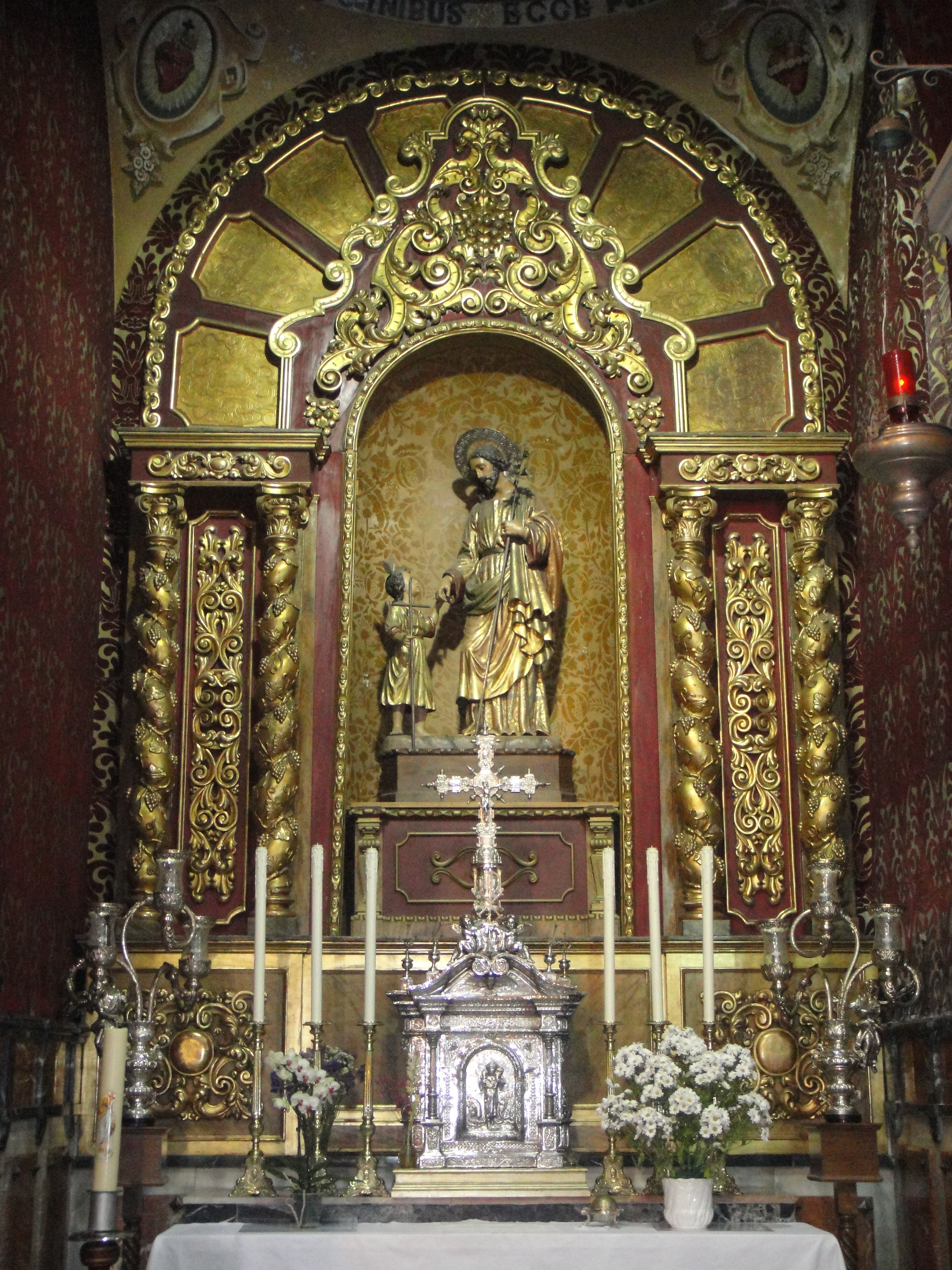 Church of St. Michael. Villanueva de Córdoba. (Spain).